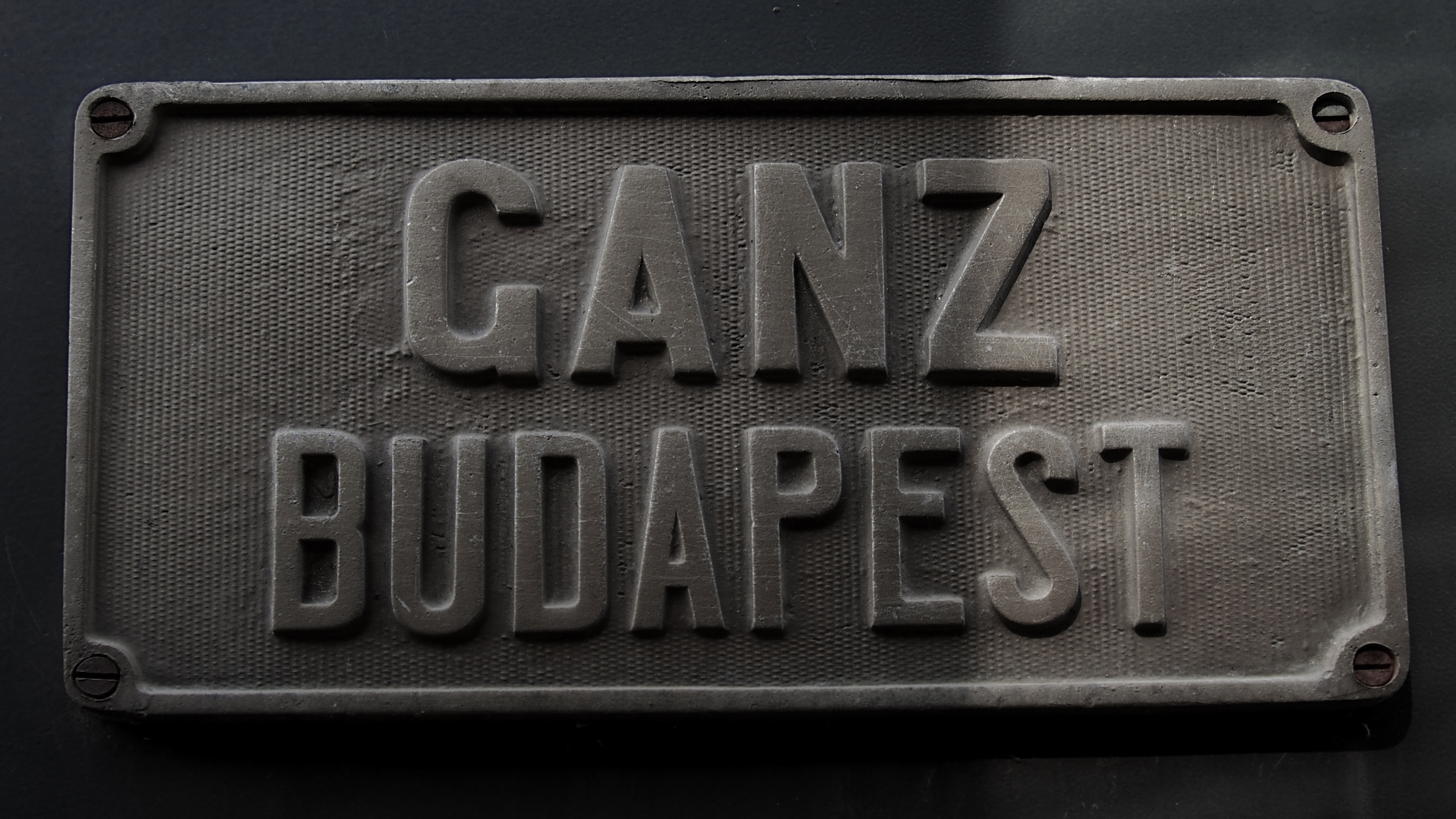 Ganz Budapest.